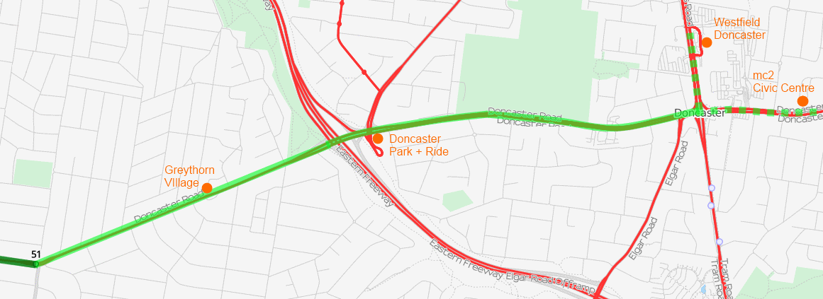 A map of the proposed extension to the Route 48 tram in Melbourne. Dark green shows current route, light green shows proposed route, orange dots show points of interest.